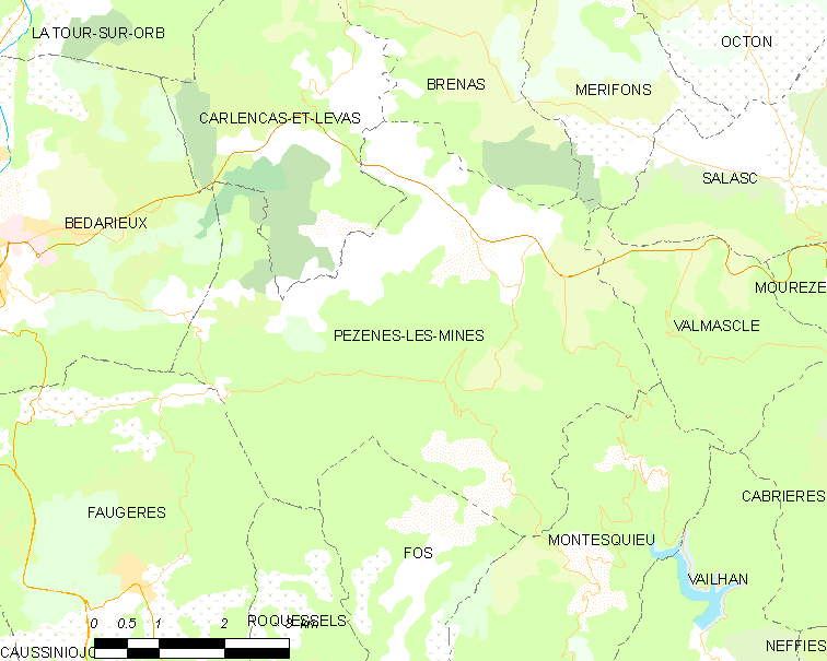 Map commune FR insee code 34200.png - Pézènes-les-Mines